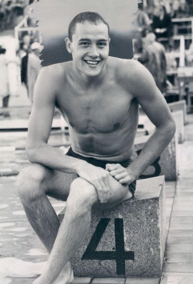 1953 Ronald Gora University Michigan and Olympic Swimmer Press Photo